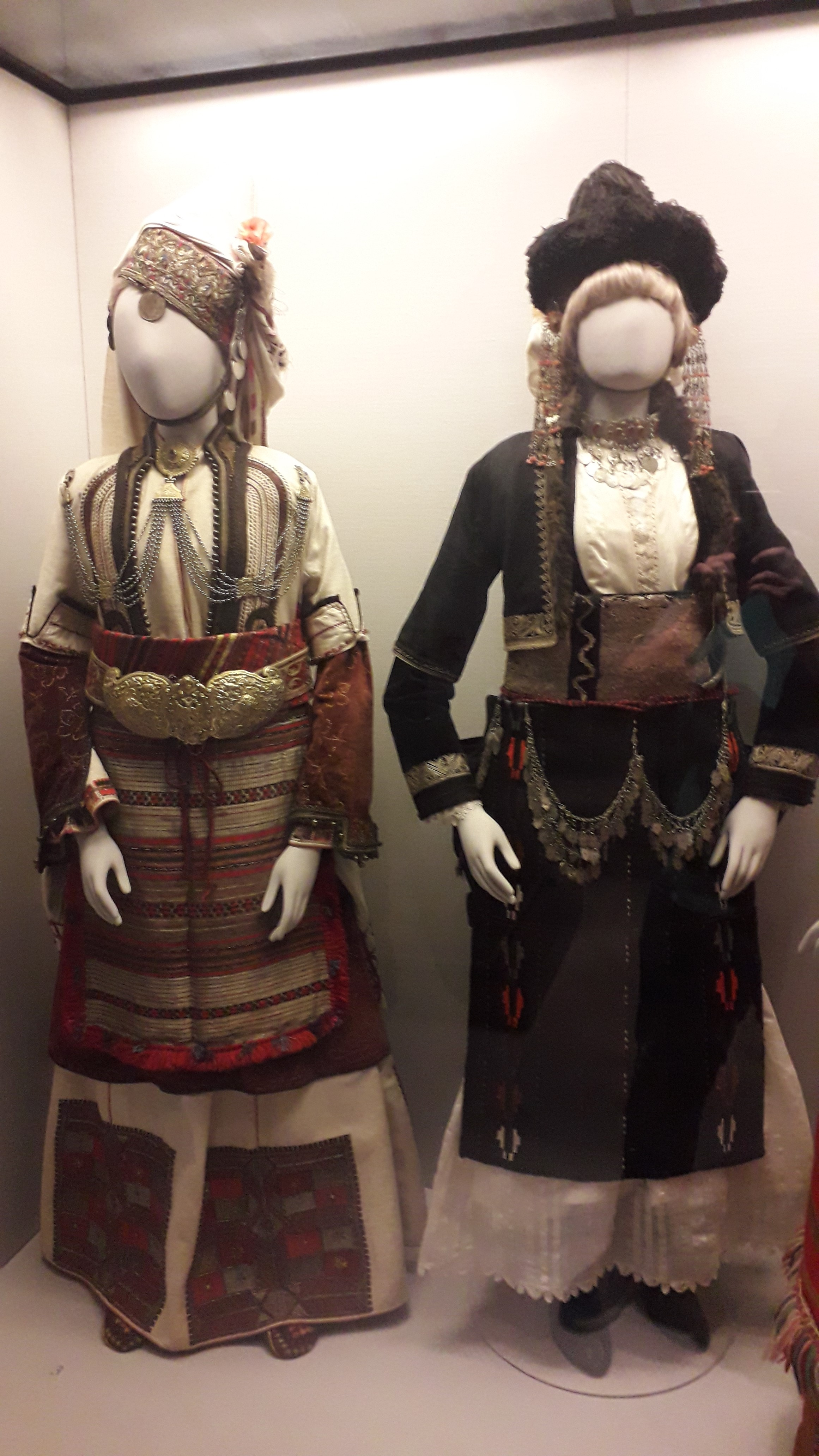 Costums from Episkopi and Verria